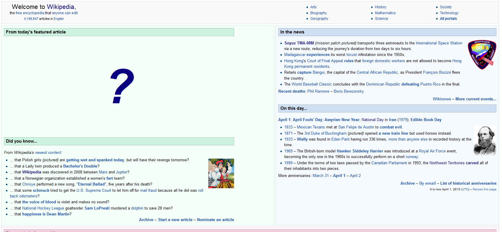 English Wikipedia Main Page on April Fool's Day 2013. The blue question mark links to the article ? (film).